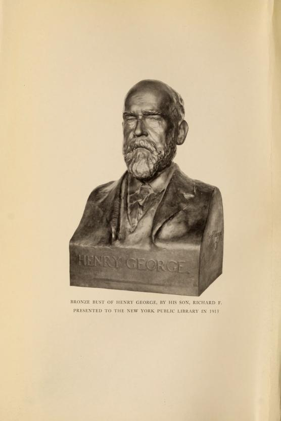 Bust of Henry George by his son Richard F. (around 1897)